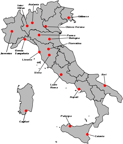 An italian map, with the italian teams of Serie A 2009-2010